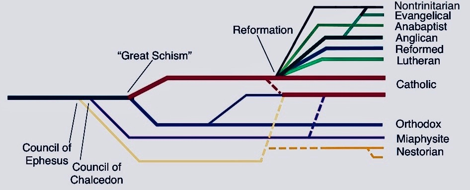 Denominational families of Christianity.